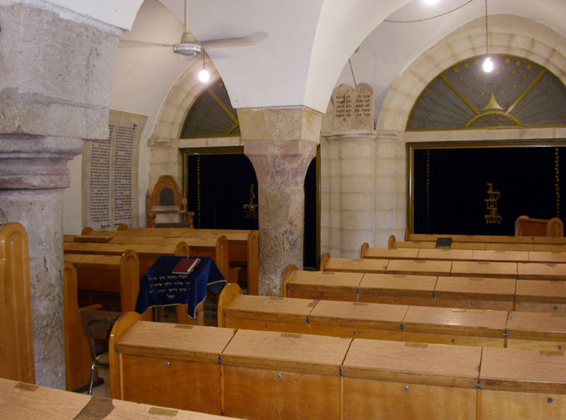 Interior of the Ramban synagogue in Jerusalem (Jewish quarter)